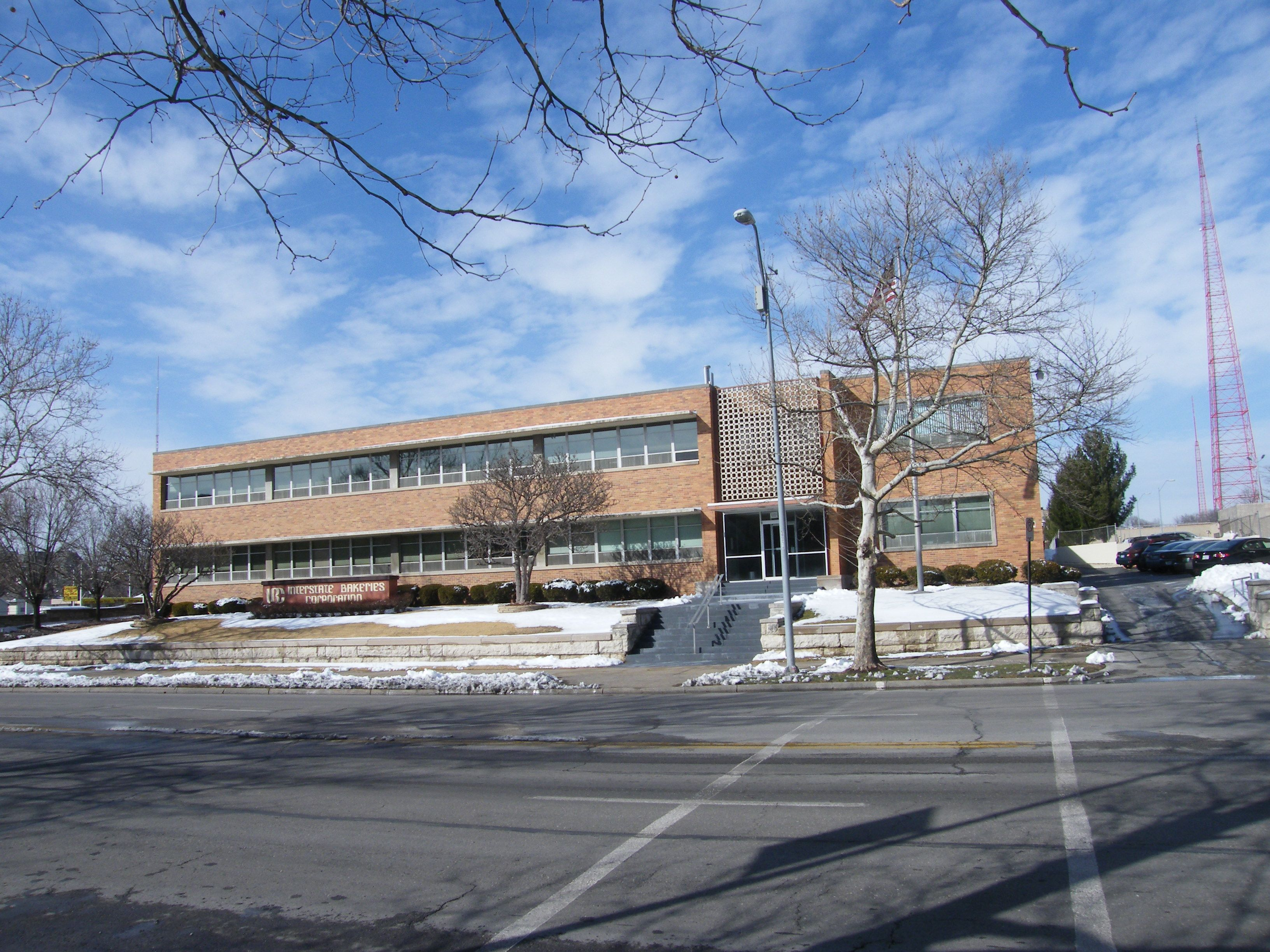 Interstate Bakeries headquarters and later Hostess Brands operation center in Kansas City, Missouri - 12 East Armour Blvd.Kansas City, MO 64111